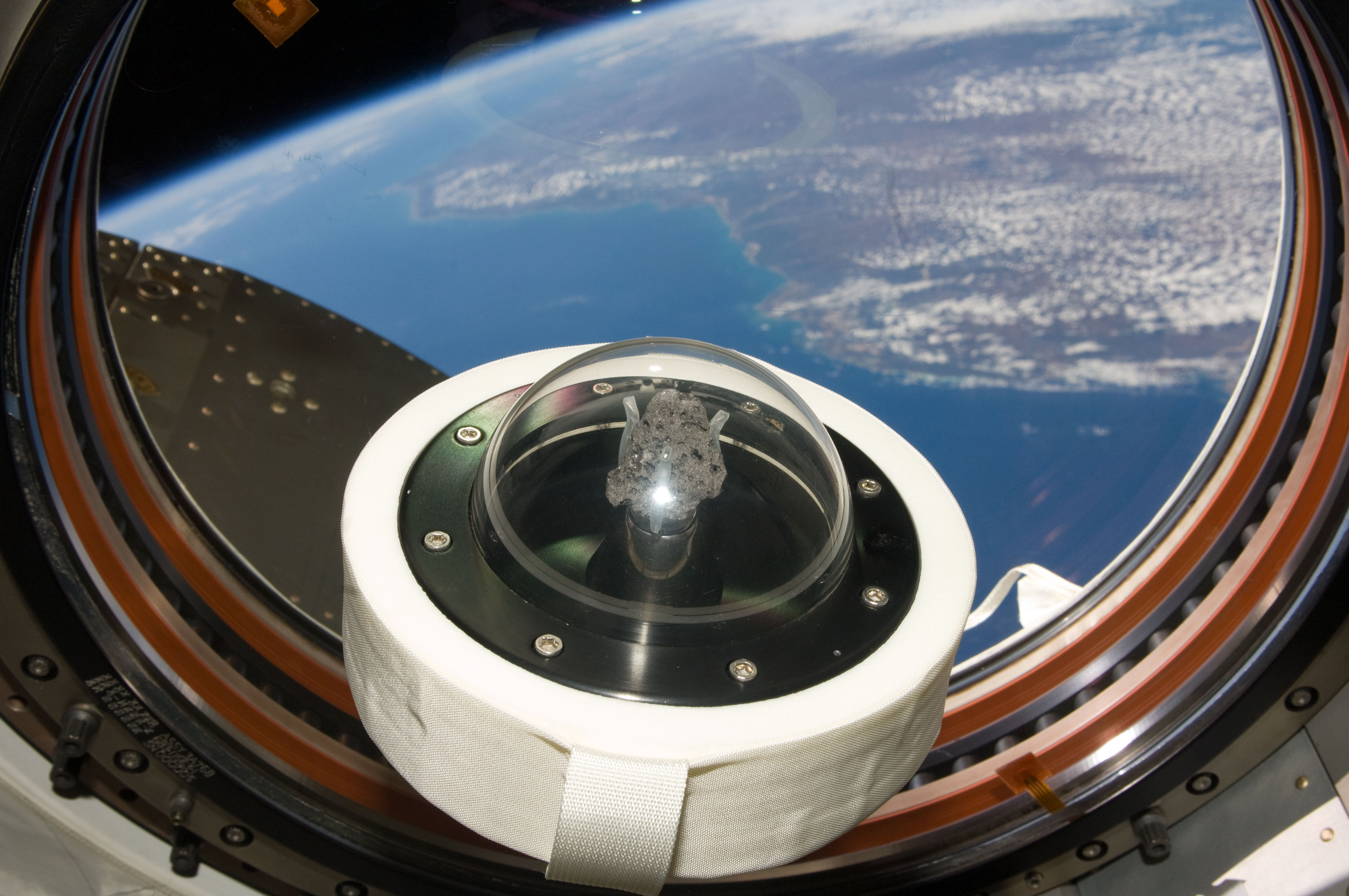 ISS020-E-14200 --- A moon rock brought to earth by Apollo 11, mans' first landing on the moon on 20 July 1969, is shown as it floats in the international space station. Part of the earth can be seen through the window. The 3.6 billion-year-old lunar sample was flown to the station aboard space shuttle mission STS-119 in April 2009 to mark the July 2009 40th anniversary of the historic first moon landing. The rock, lunar sample 10072, was flown to the station to serve as a symbol of the United States's resolve to continue the exploration of space. It was returned to earth for public display by shuttle mission STS-128.